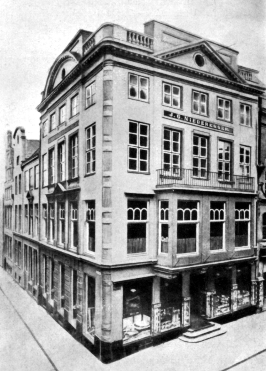 The building Breite Straße No. 89 in Lübeck (destroyed in 1942), parent house of Niederegger company.